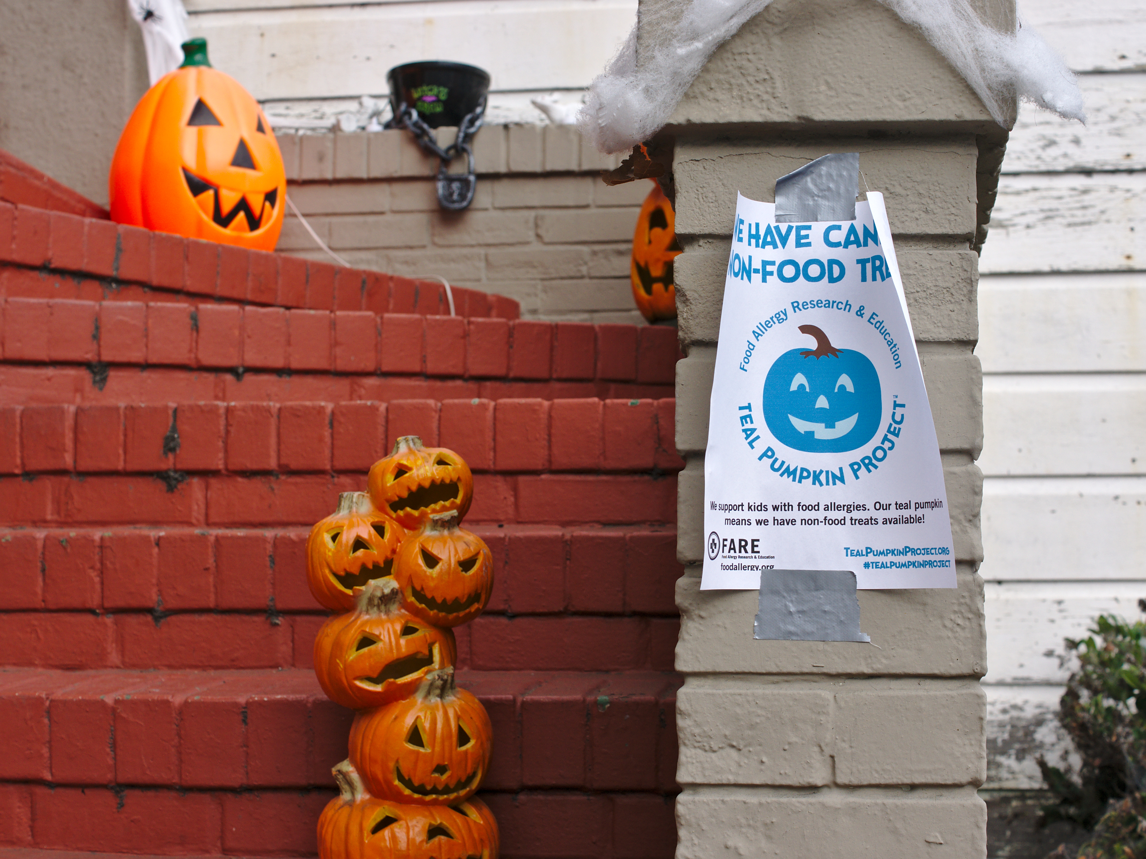 Food Allergy Research & Education Teal Pumpkin Flyer on display at a house in San Francisco, California.